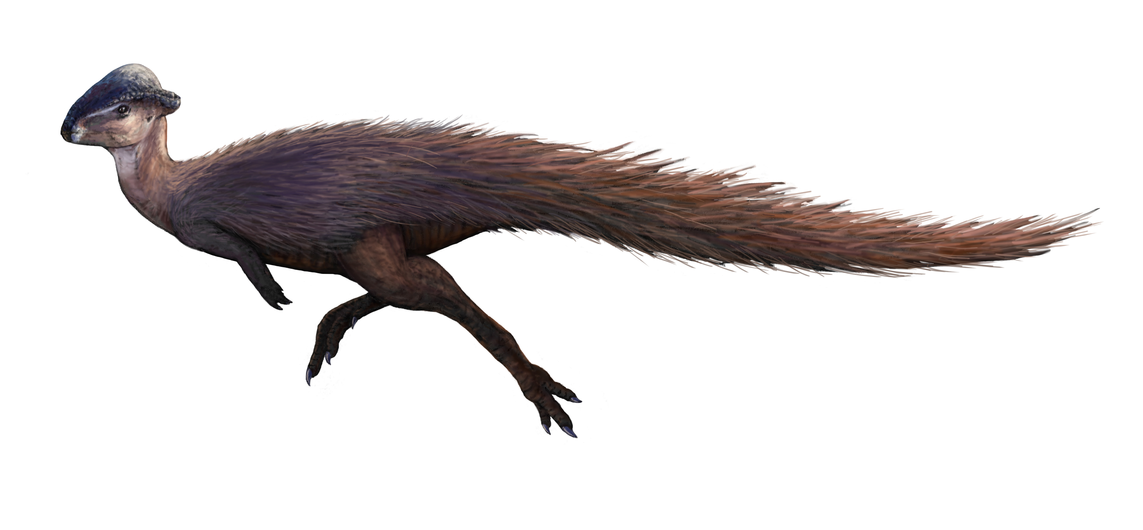 Stegoceras validum life restoration. Proportions based on a skeletal reconstruction by Scott Hartman[1] and photos of the skull. The integument is based on that of some other small ornithischian dinosaurs.